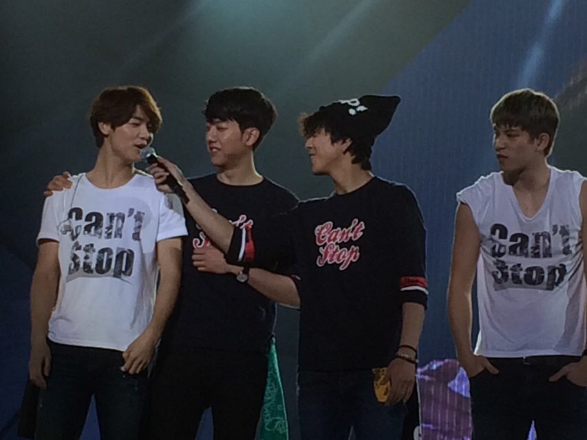 2014 CNBLUE Live [Can't Stop] concert in Nanjing, China, on November 29.